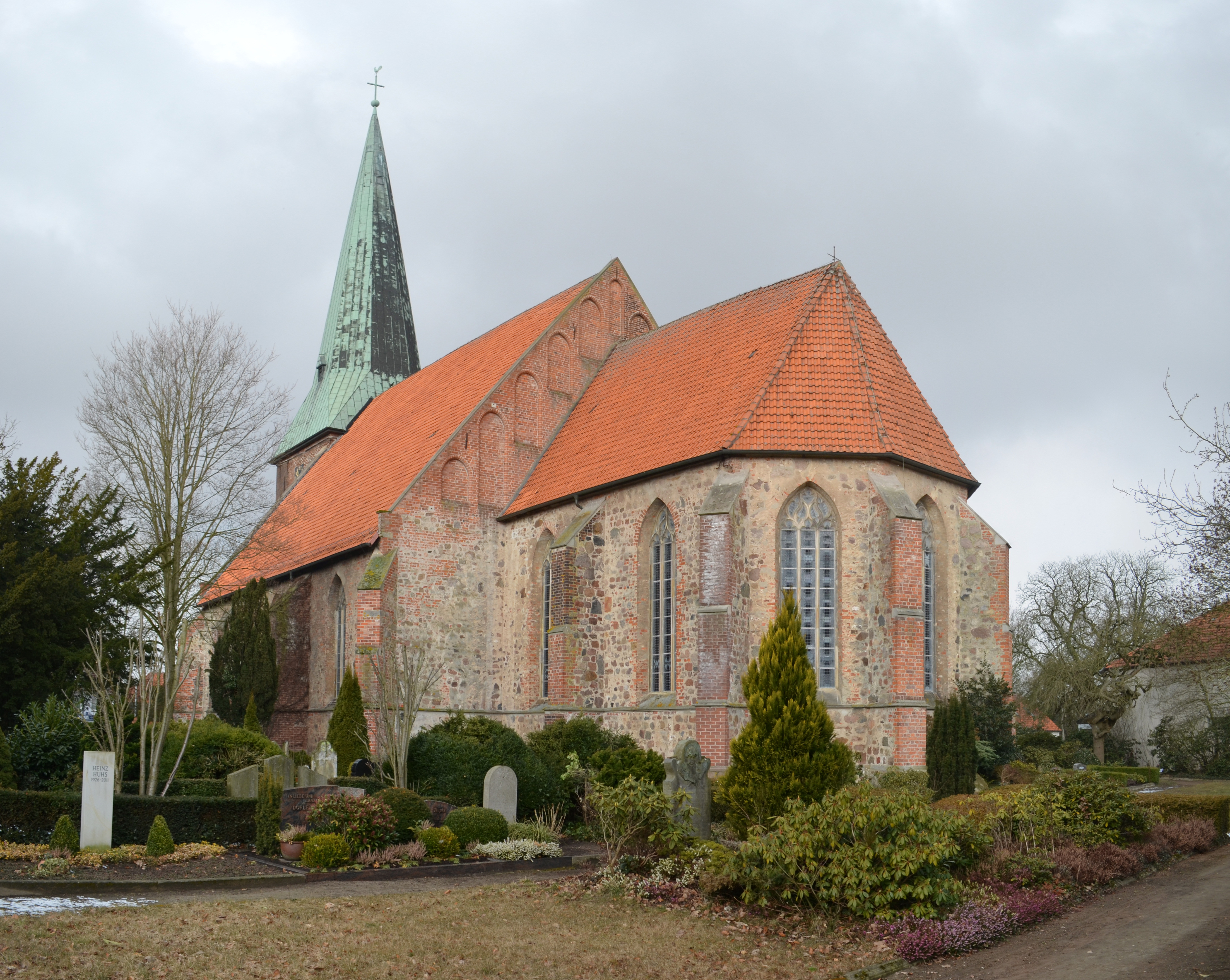 St. Cyprian und Cornelius Church in Ganderkesee, south-eastern aspect This image was created with Hugin